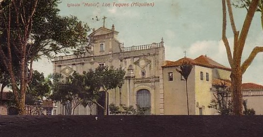 Principal church of Los Teques.